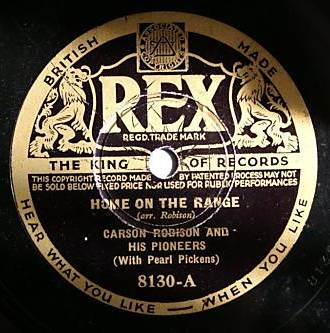 Home on the Range by Carson Robison and his Pioneers, undated UK Rex single.